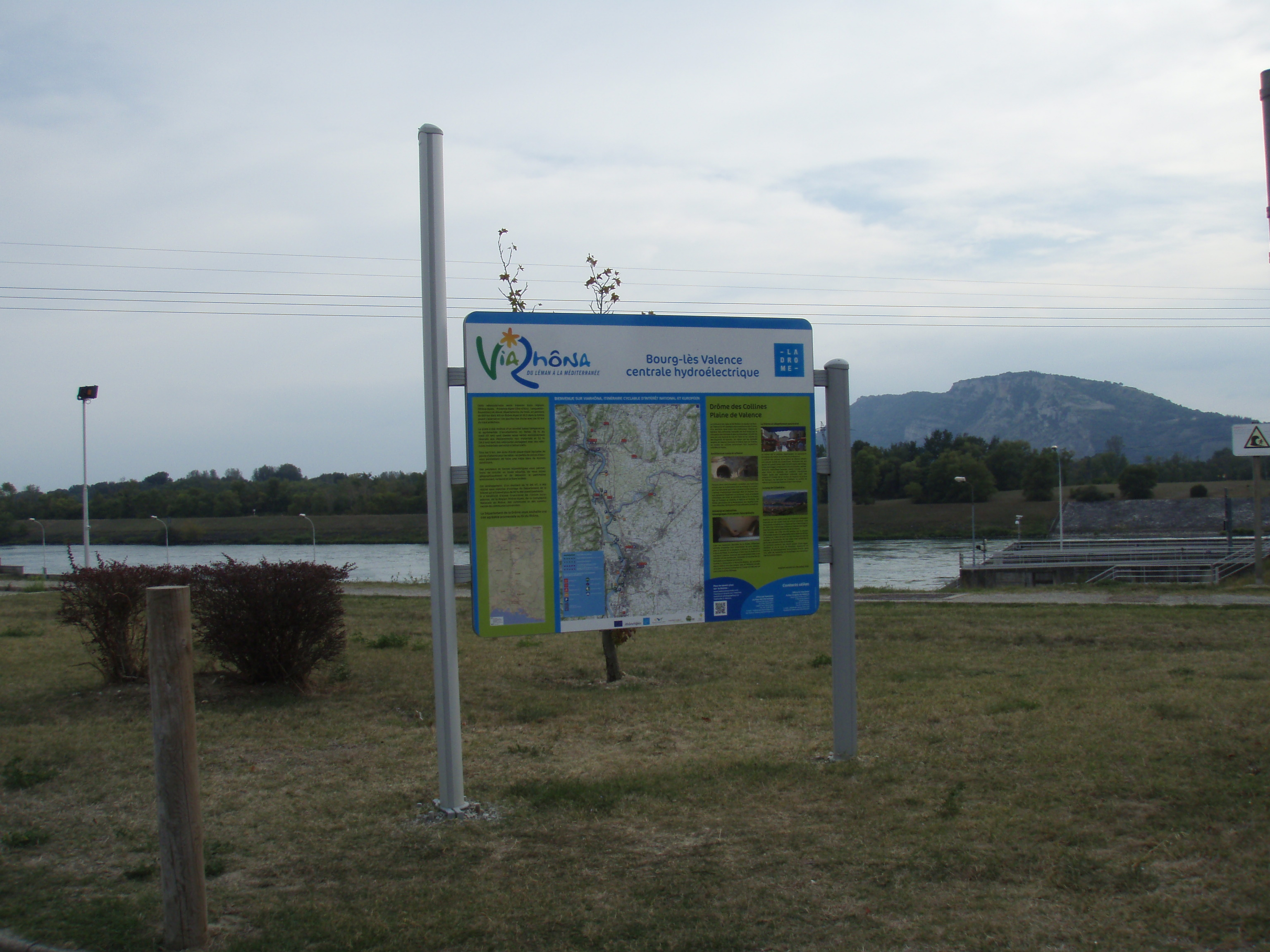 Road sign for ViaRhona cycle lane (from Lake Geneva to Mediterranean sea) near Bourg-les-Valence dam (Drôme - France)